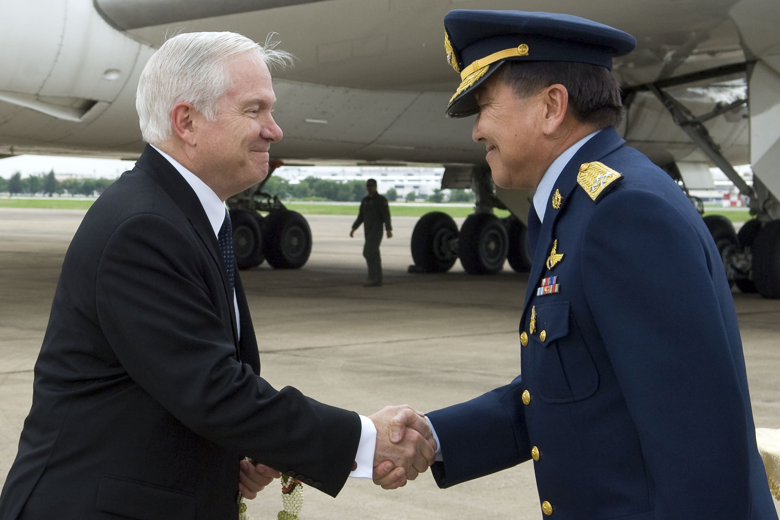 After touchdown in Bangkok, Thailand, U.S. Defense Secretary Robert Gates (left) shakes hands with Air Chief Marshal Chalit Pookpasuk (right) of the Royal Thai Air Force